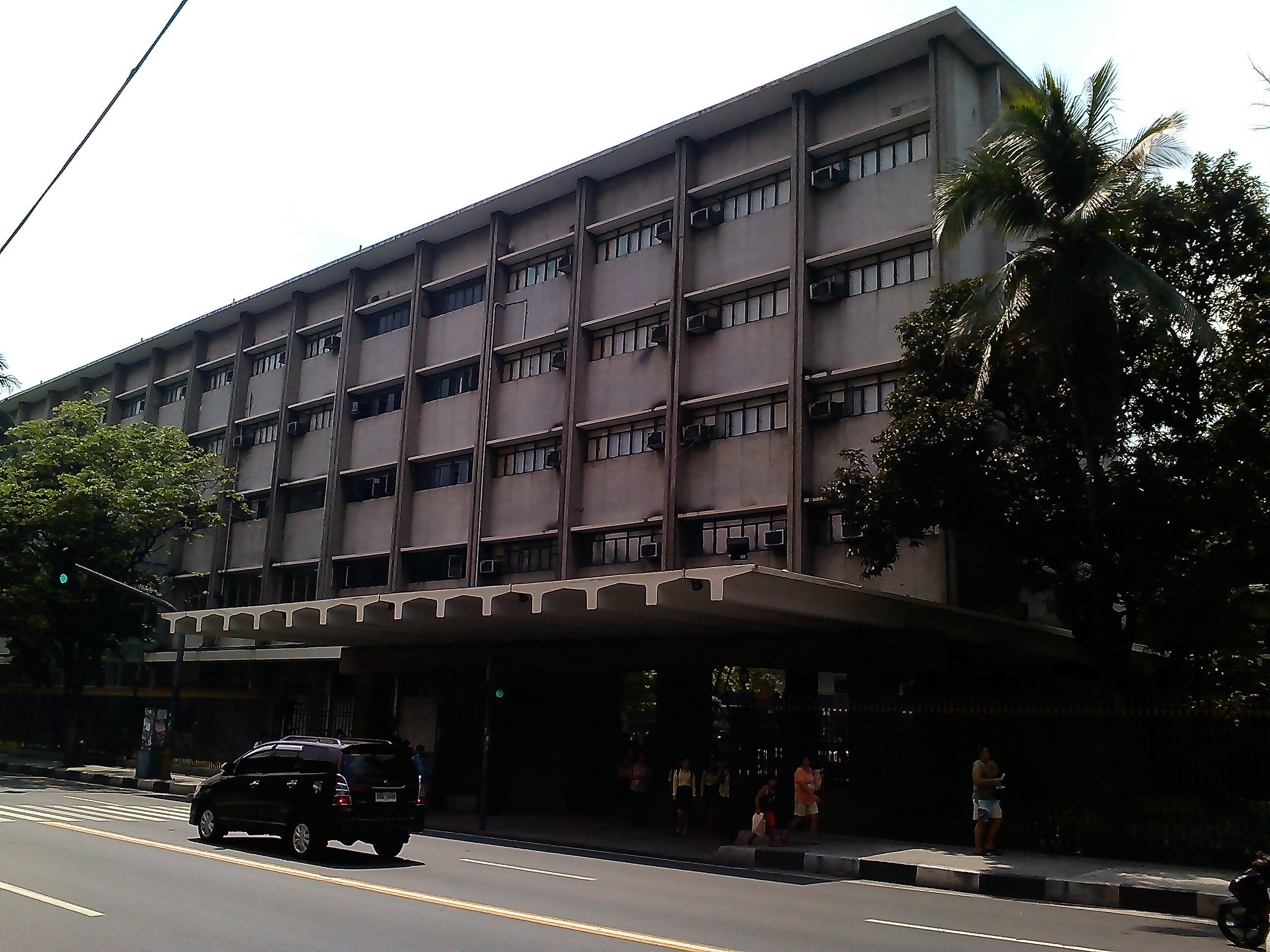 Jose Rizal University main entrance